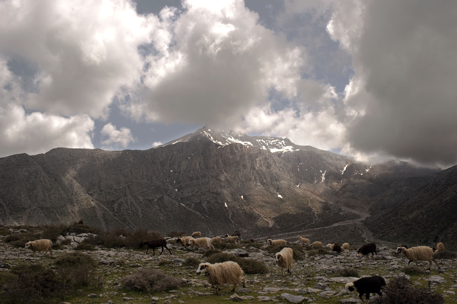 Dikti mountains at Lasithi prefecture, as seen from Limnarakou plateau